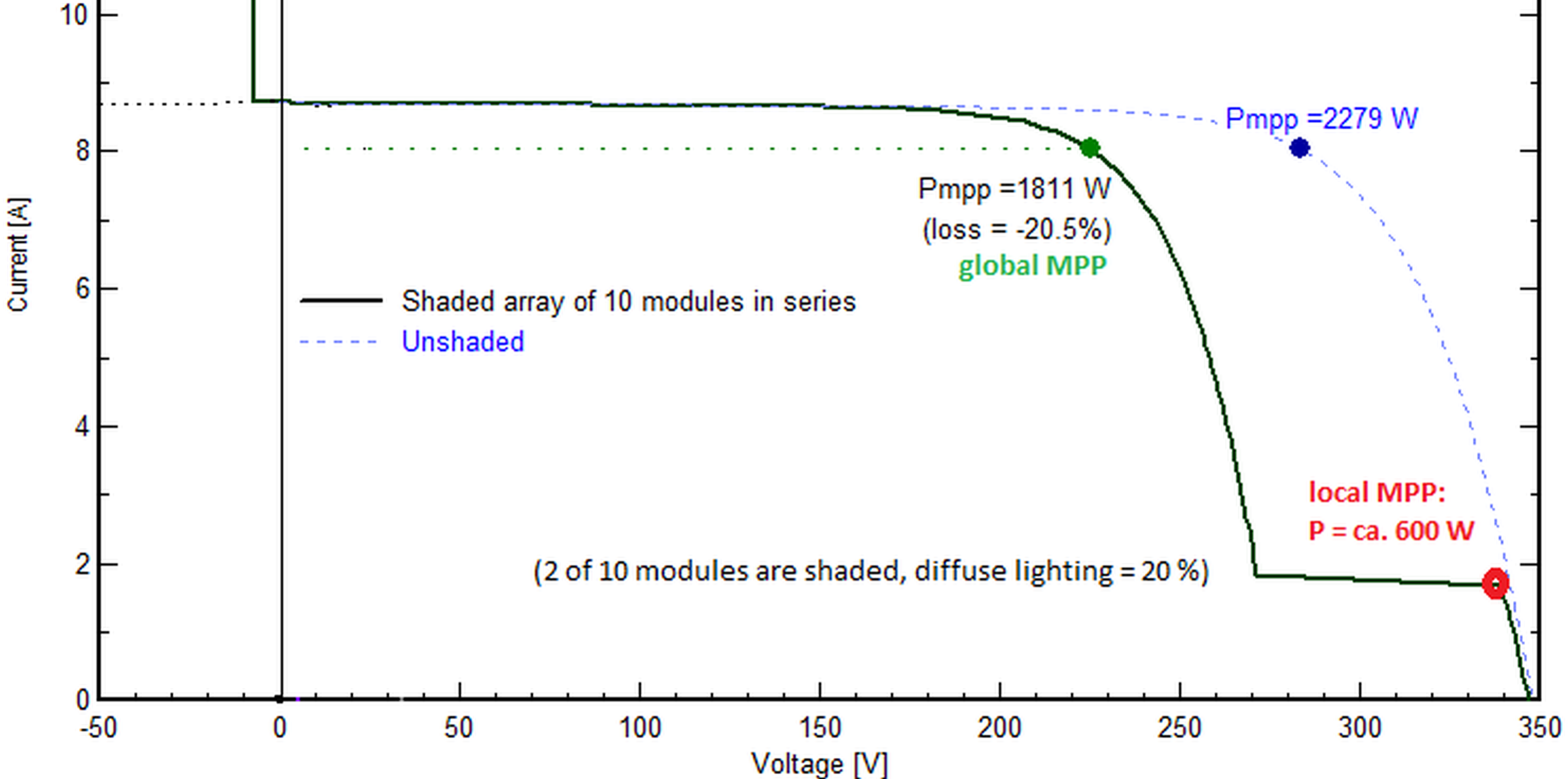 UI-curve of a partially shaded solar generator, with marked local and global MPP